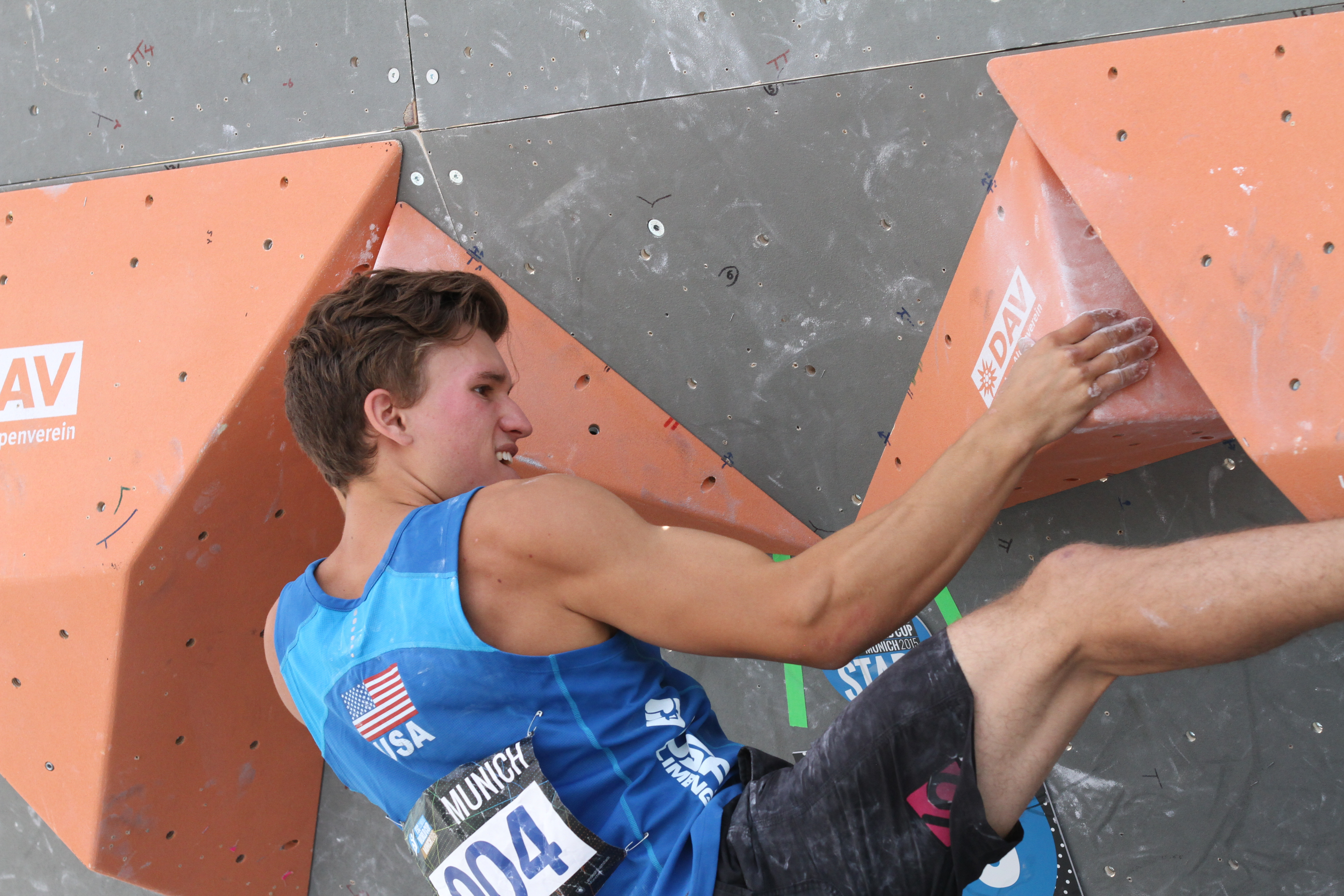 IFSC Boulder Worldcup, Munich 2015. Nathaniel Coleman (USA)